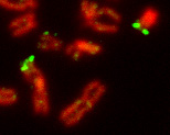 Detail of a human metaphase spread. A region in the pseudoautosomal region of the short arms of the X- and Y-chromosome (PAR1) was detected by fluorescence in situ hybridizaton (green). Chromosomes counterstained in red.